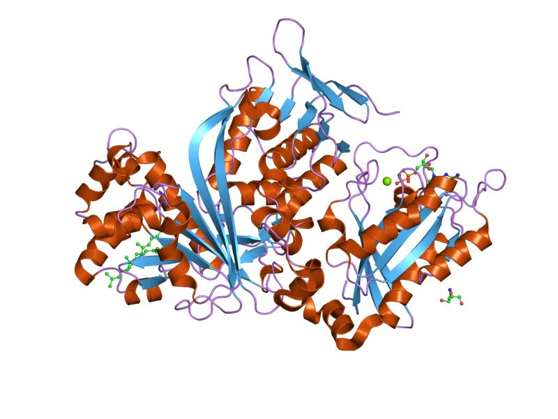 Cartoon representation of the molecular structure of protein registered with 2bcg code.